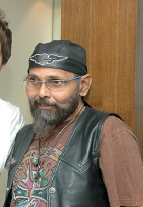 Image of Jagdish Mali, Indian fashion and film photographer